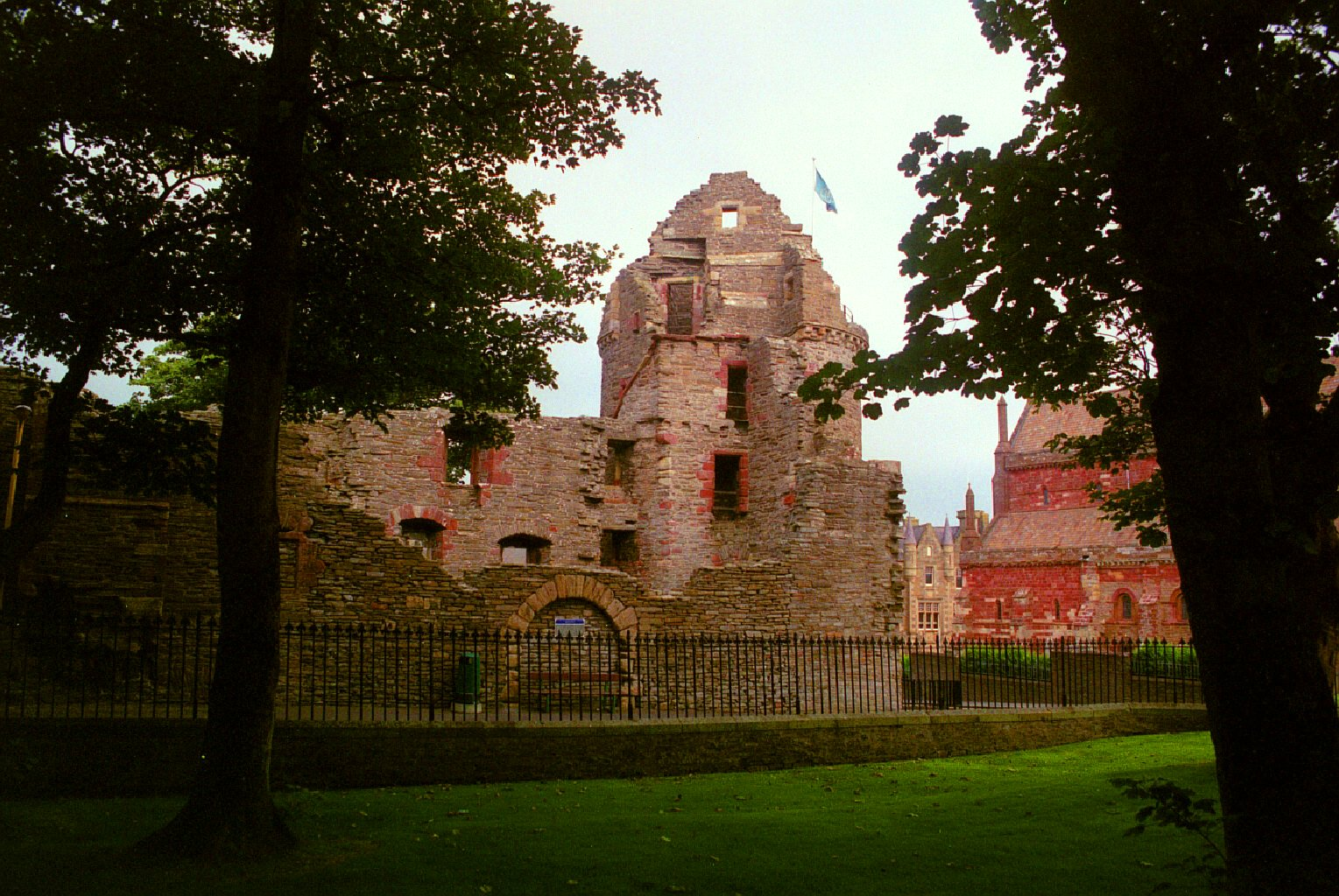 Bishop's Palace